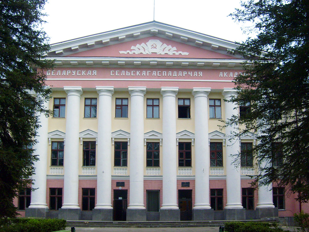 Belarusian State Agriculture Academy, Horki